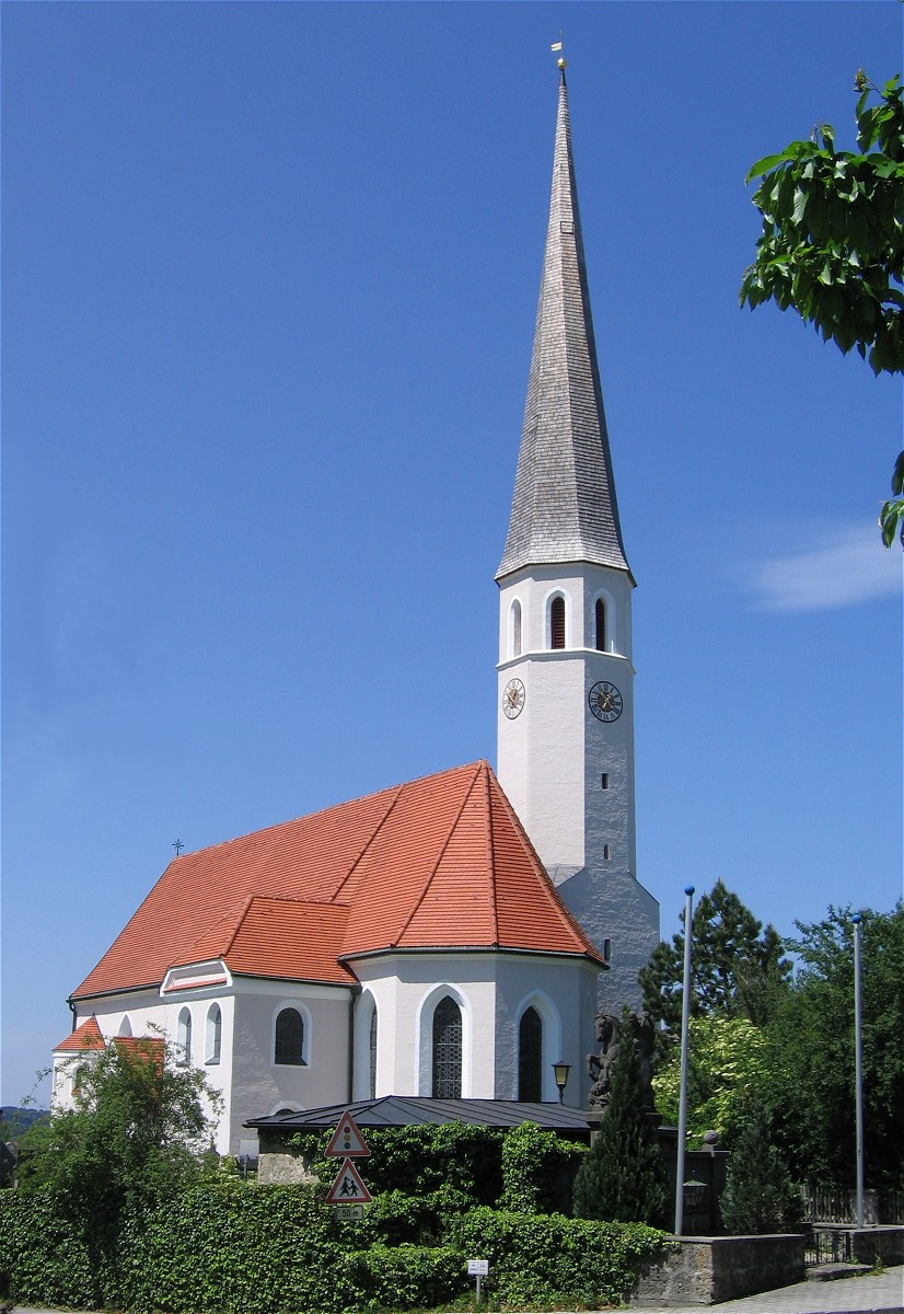 Ostermünchen, view of Parish Church of Saint Stephan and Lawrence from south-east.